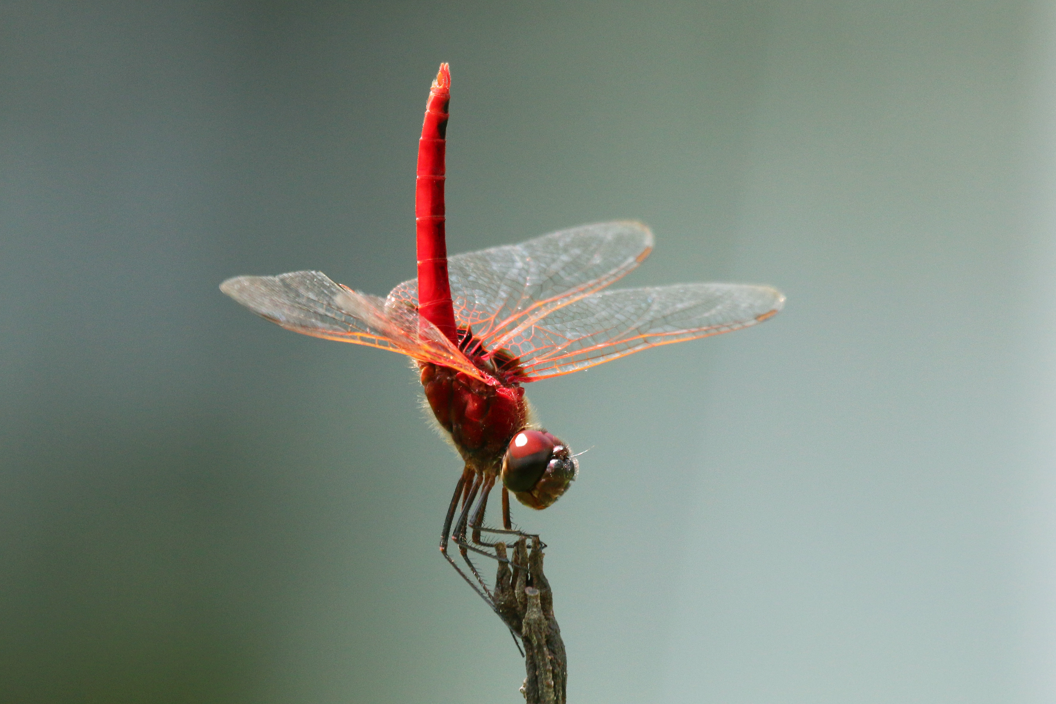 Sepilok, Sabah, Malaysia: Scarlet basker (Urothemis signata insignata) male (Photo taken in the compound of Bornean Sun Bear Rehabilitation Centre)